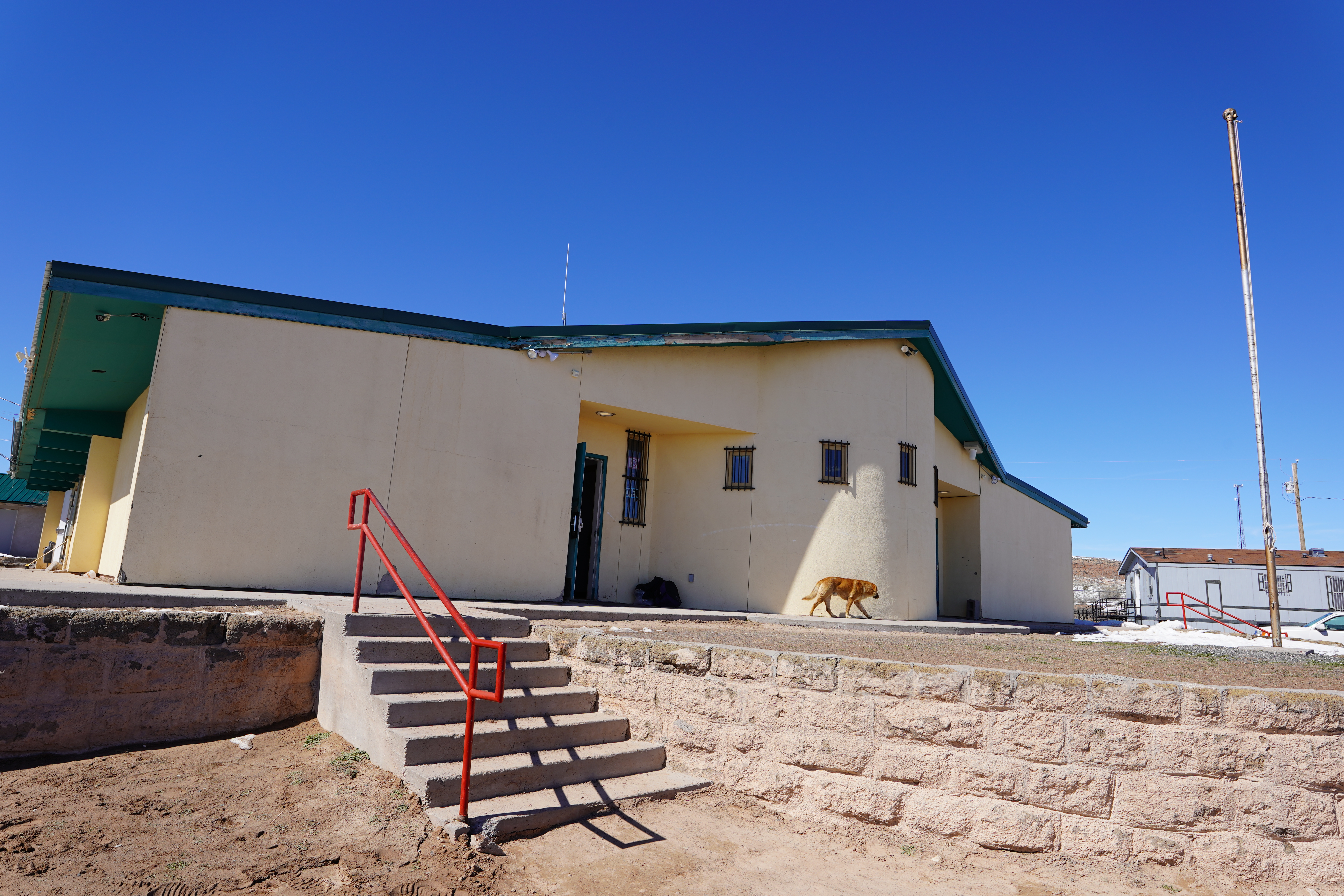 The photograph is of the Greasewood Chapter House of the Navajo Nation. Photograph taken on 2019-02-27T20:11:32Z.